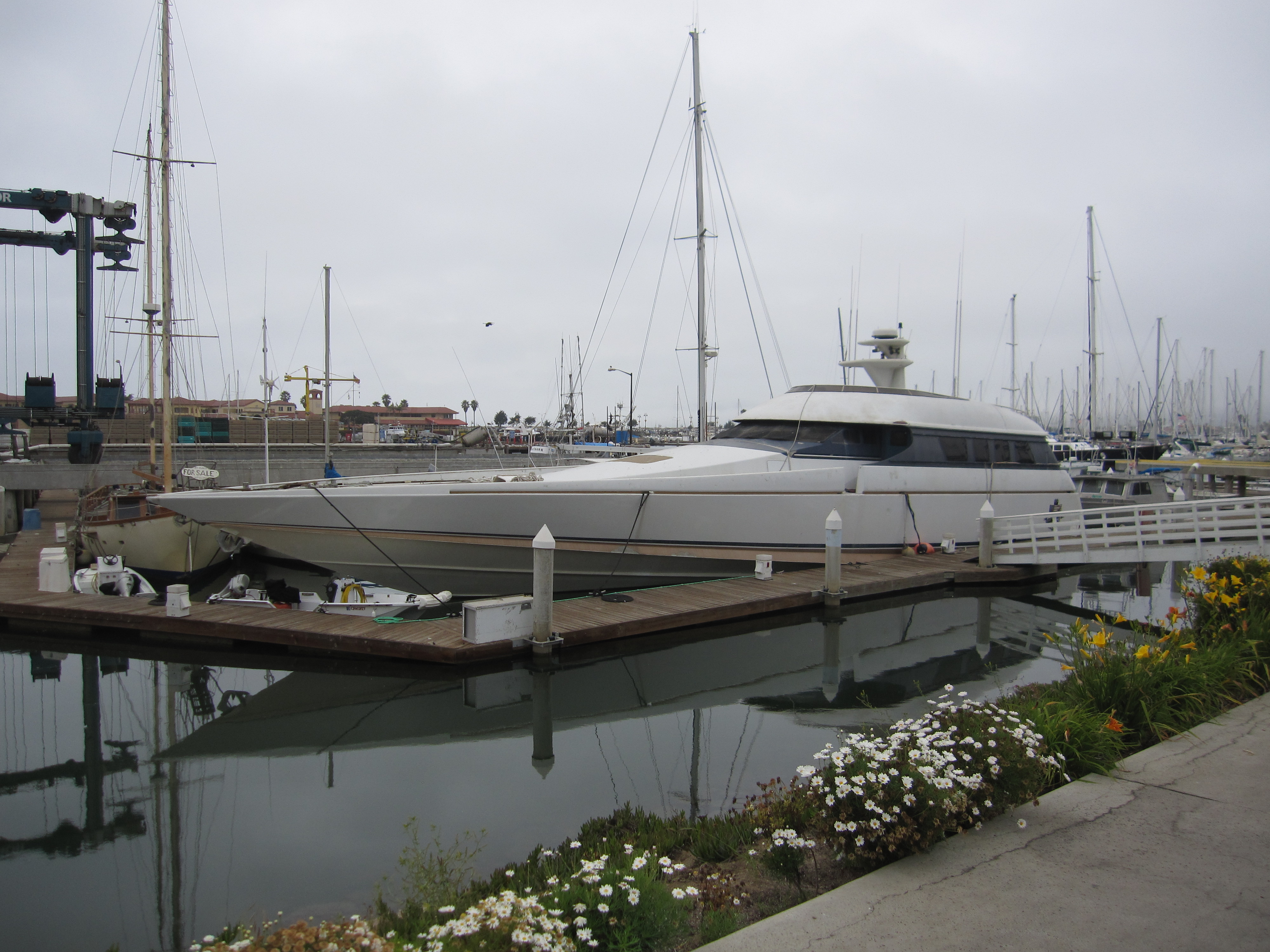 Picture of the Gentry Eagle race yacht.